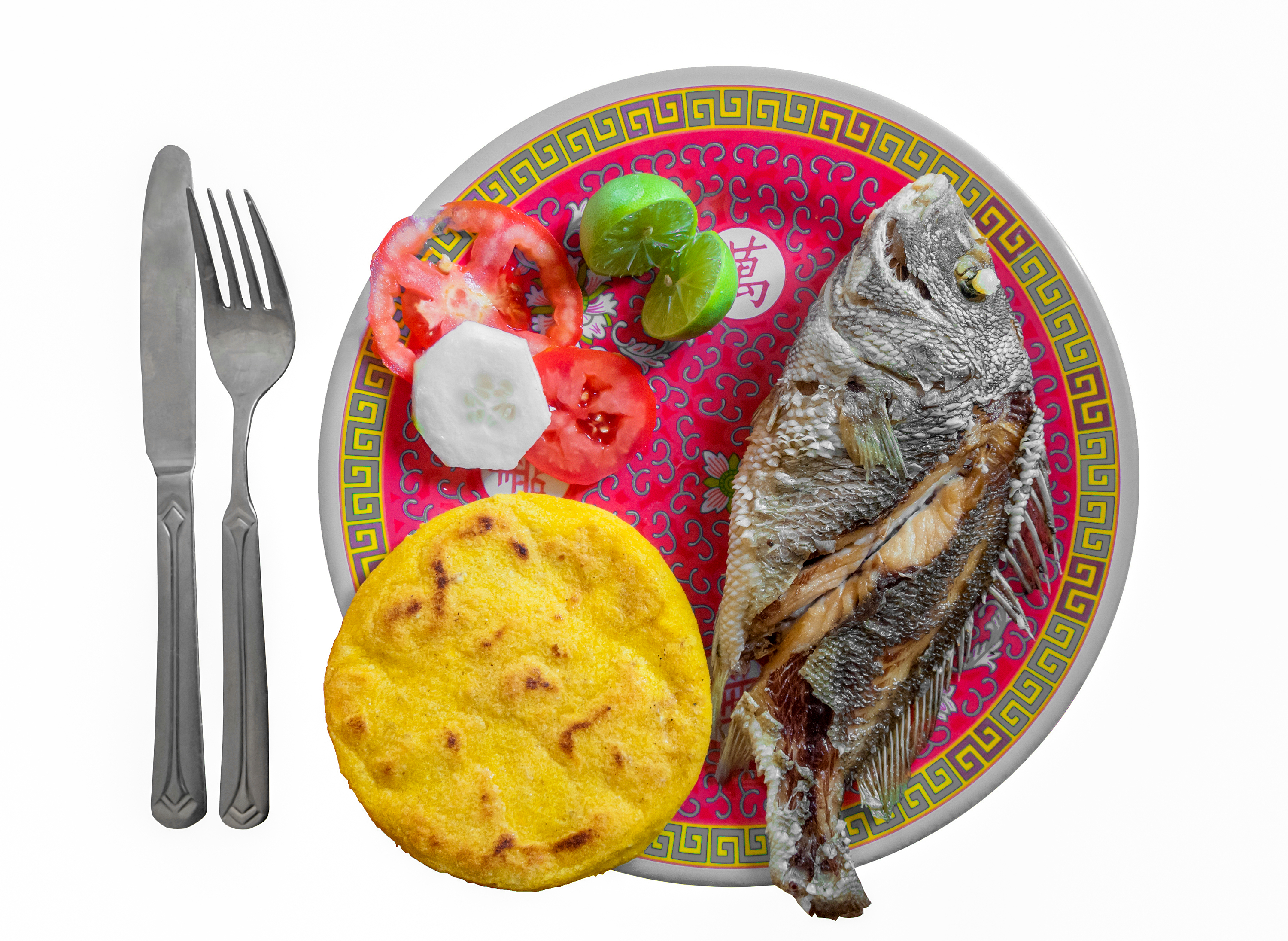 Corocoro (Haemulon plumieri) with salad of Pepino (Solanum muricatum), tomatoes and Arepa. Typical food of Isla Margarita.